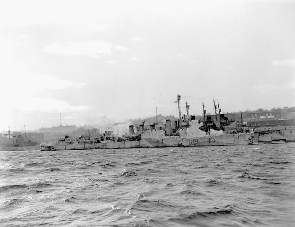 Ice-covered H.M.C.S. Leamington. Halifax, Nova Scotia, Canada.